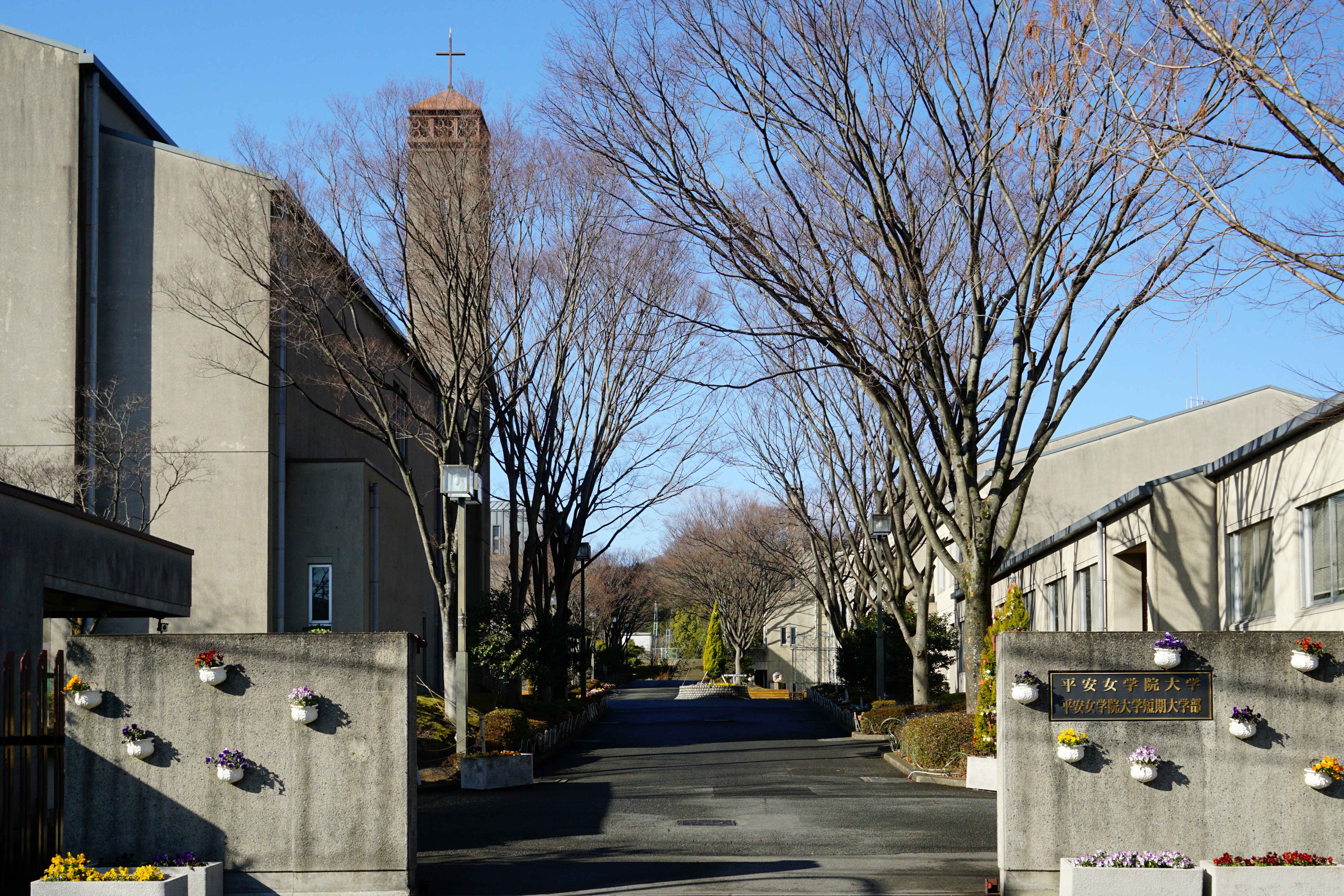 Heian Jogakuin University Takatsuki Campus in Nanpeidai, Takatsuki, Osaka prefecture, Japan.